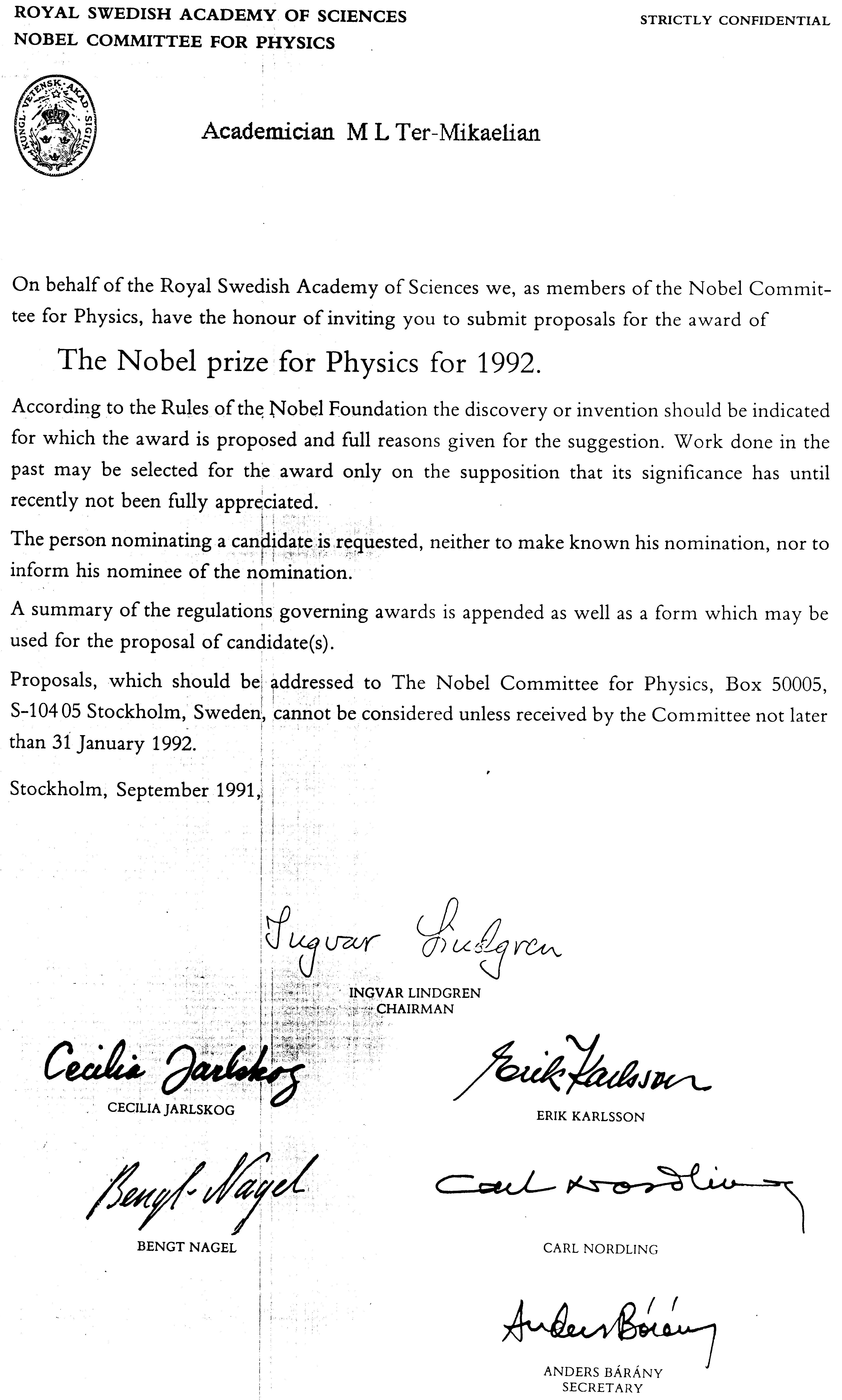 Mikael Ter-Mikaelian, Letter of Nobel Committee for Physics, 1991